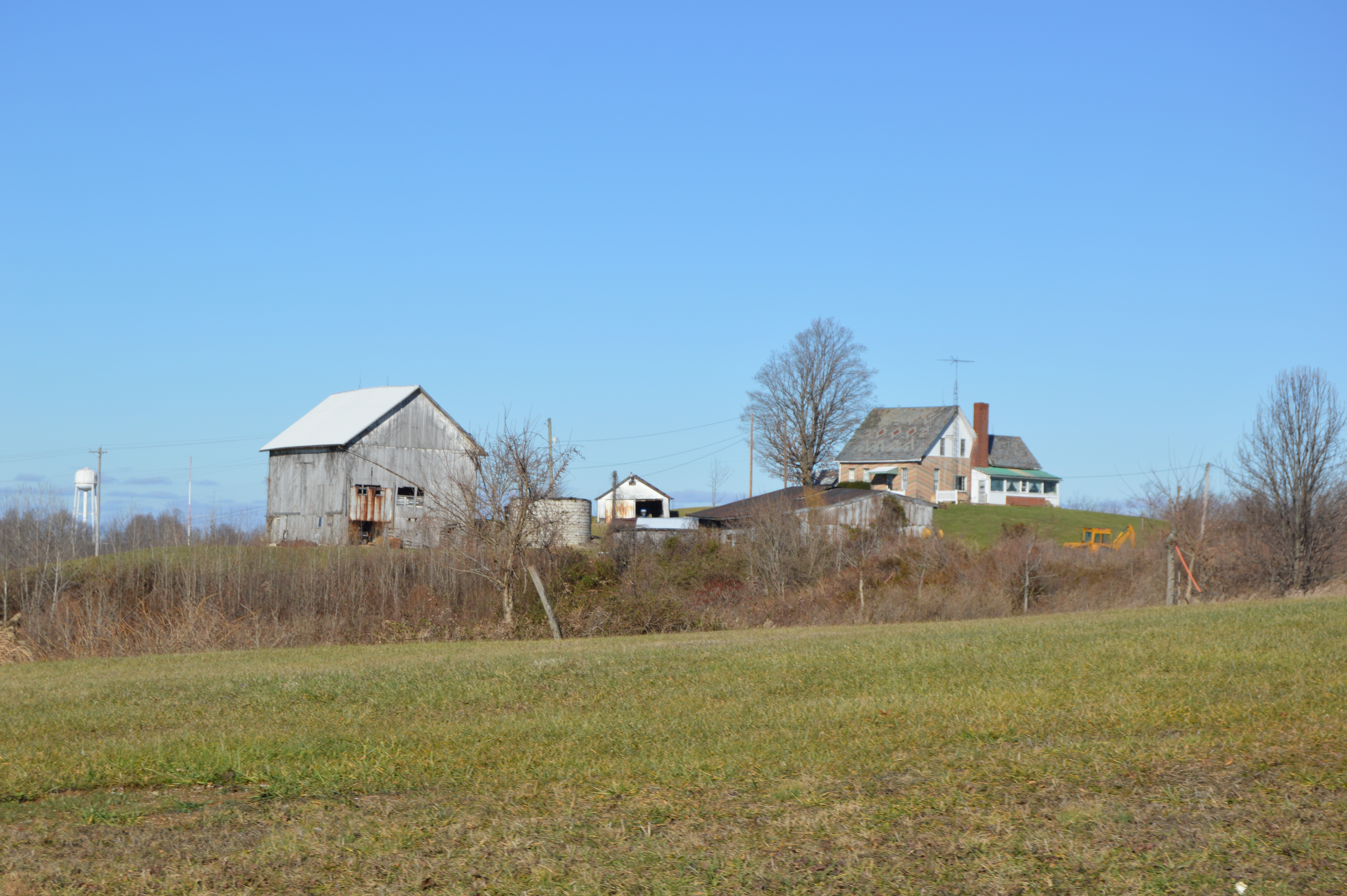 Looking north from State Route 60 toward a farmstead on the eastern fringe of Morgan Township, Morgan County, Ohio, United States.